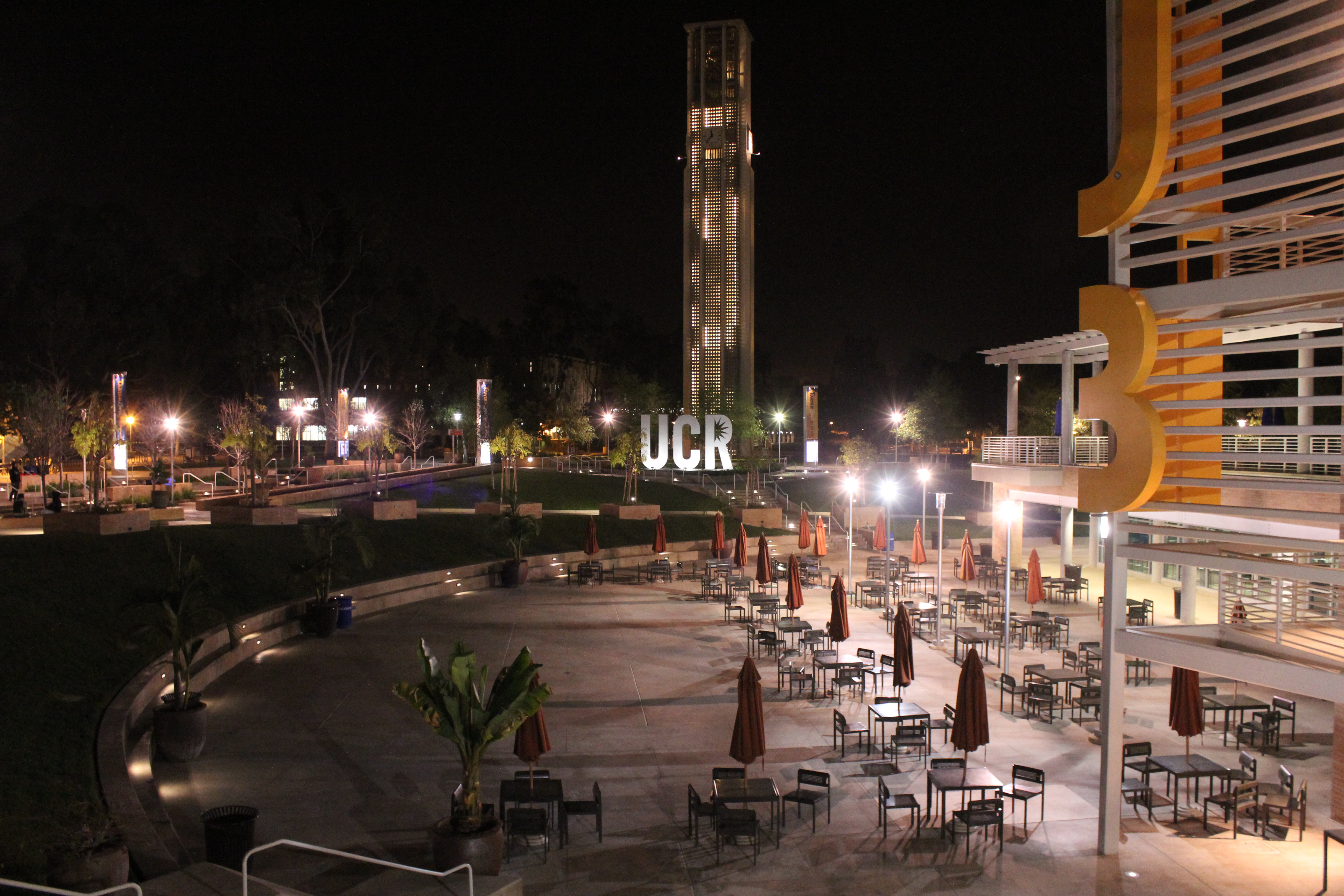 Night shot of the Carillon Bell Tower at UCR from the HUB area